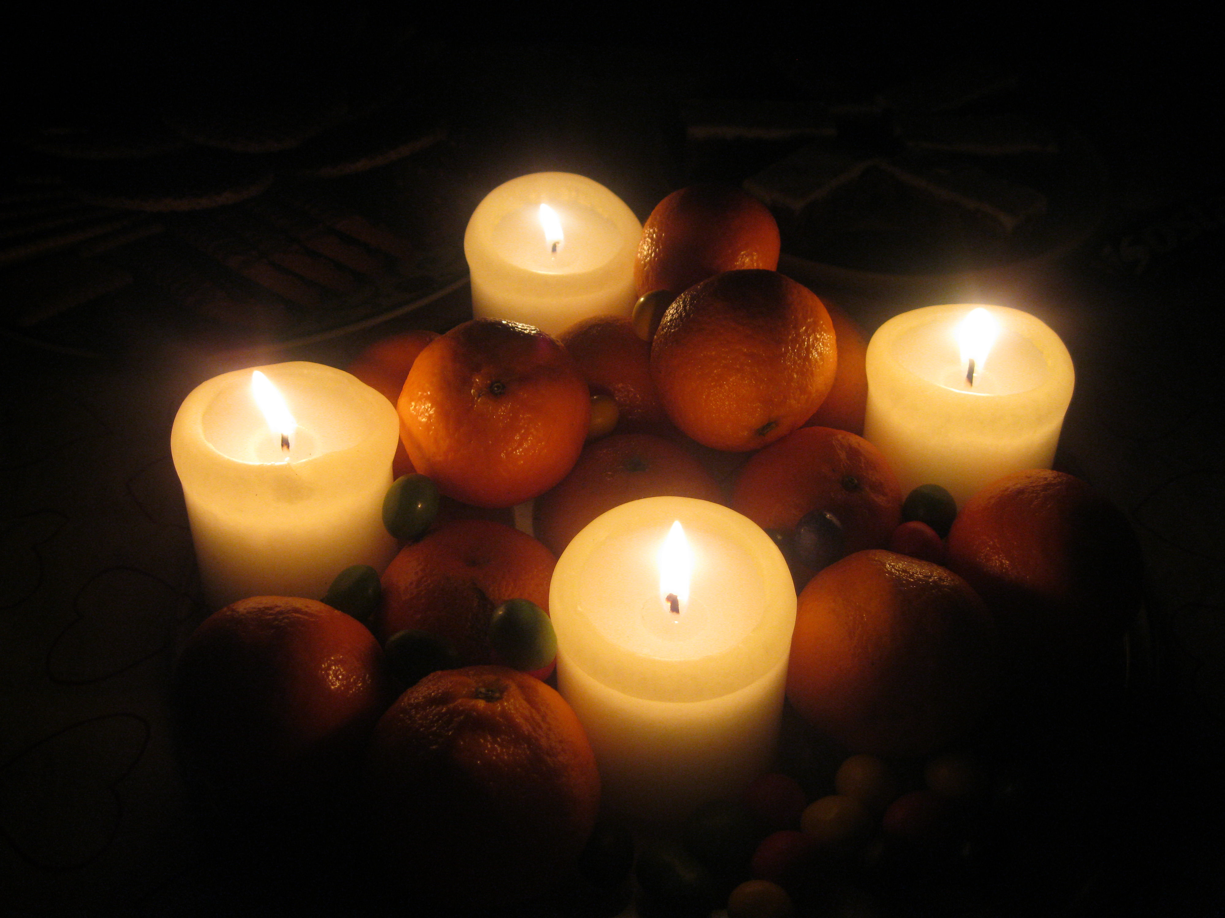 Candles light a plate of oranges and "smarties" on Christmas Eve 2010. In the background, there are two plates of cookies (hard to recognise).